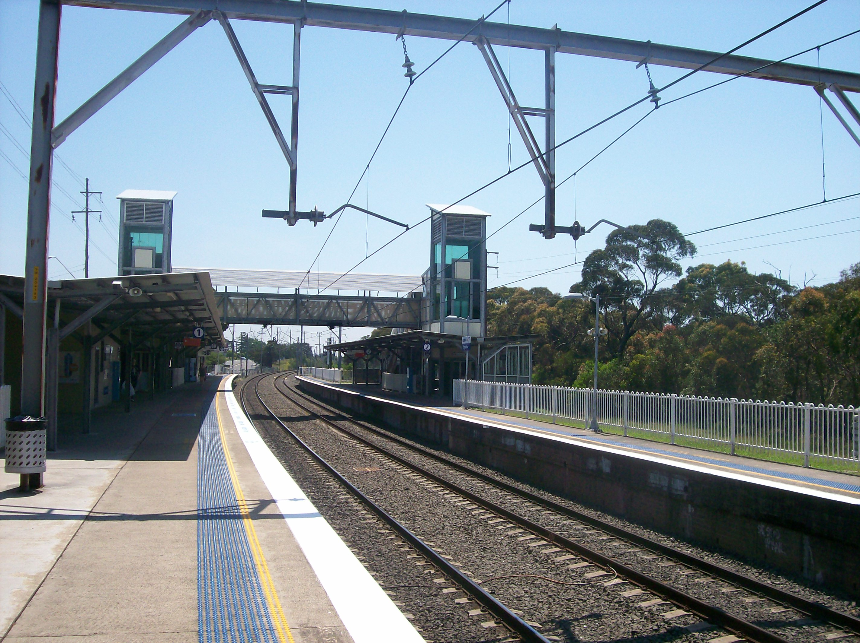 Engadine railway station